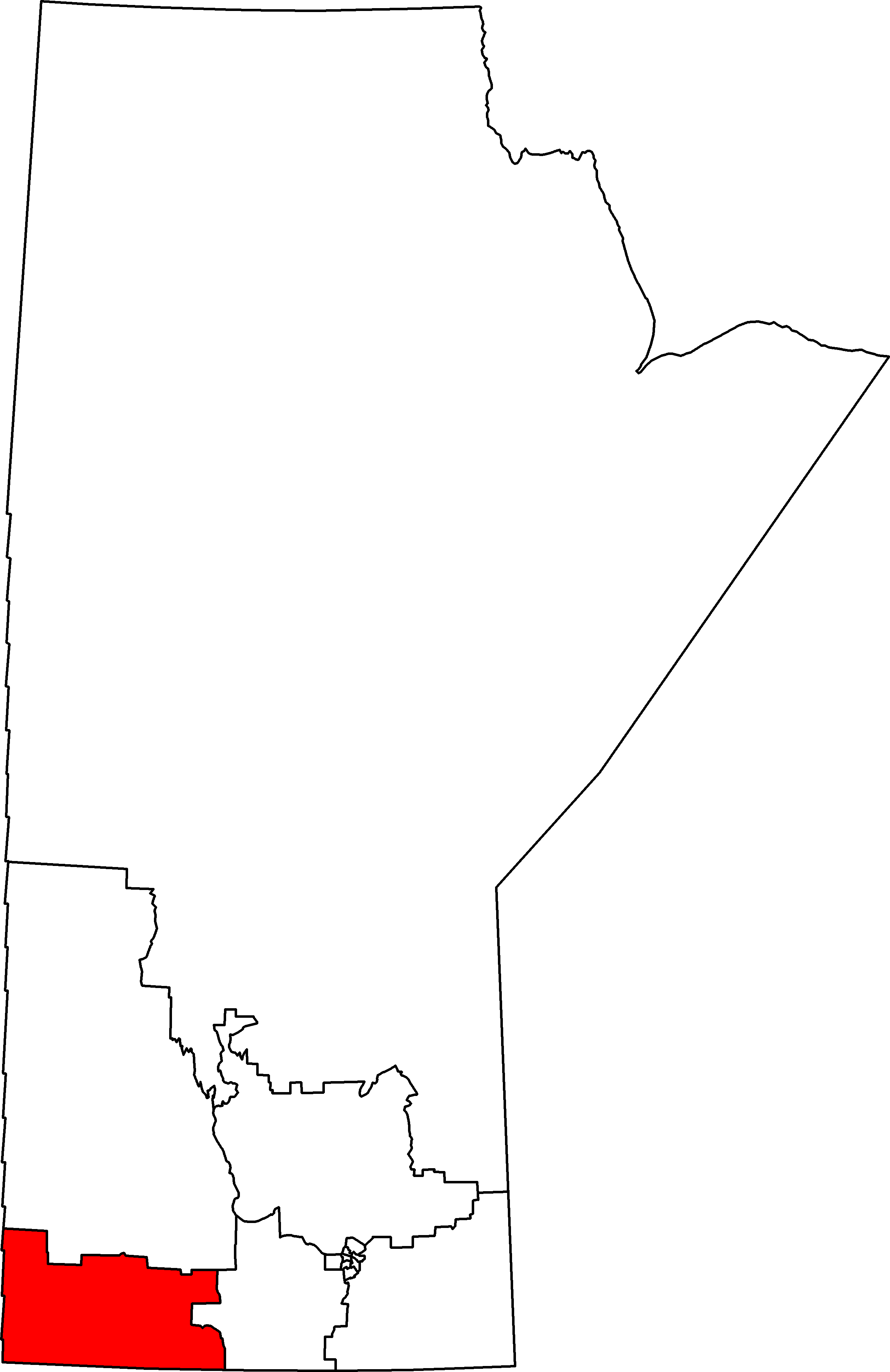 Federal Electoral District in Manitoba, Canada as of the 2013 Representation Order.